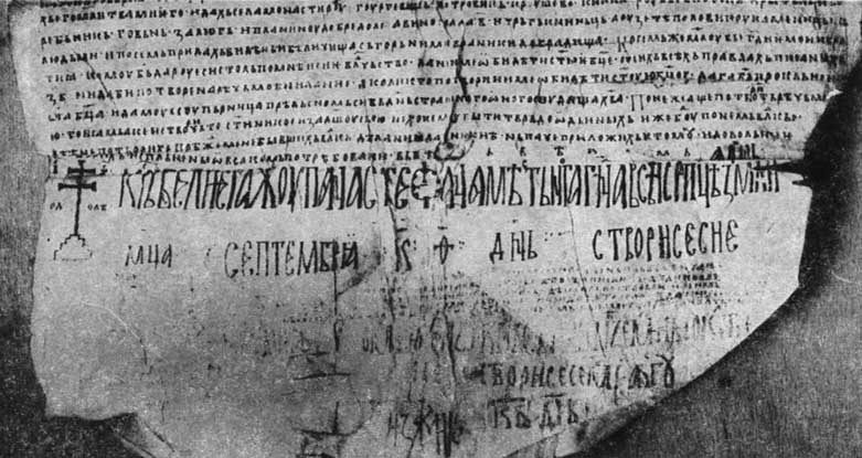 Charter of Hilandar, 2nd version, revision by Stefan the First-Crowned dated to 1200-1202